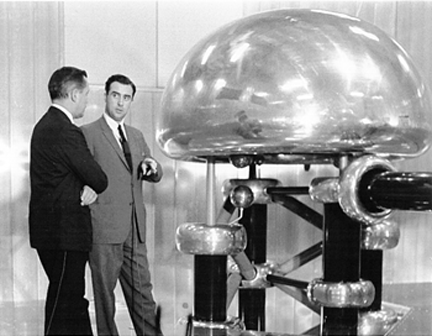 With the 1957 development of the Zero Gradient Synchrotron, Argonne National Laboratory (near Chicago, Ill.) became a user-oriented laboratory accessible to all sectors of society. Albert Crewe (right), Argonne director from 1961 to 1967, explains the ZGS's Cockroft-Walton preaccelerator.